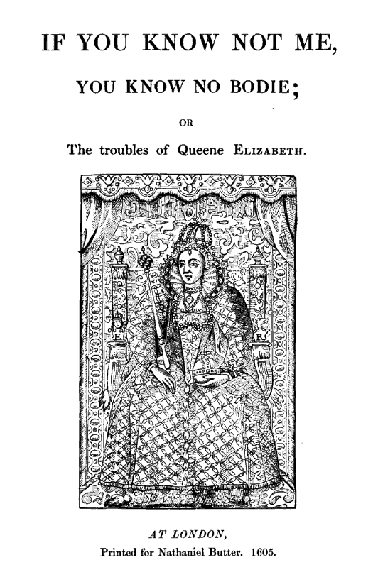 Title page of 1606 publication of If You Know Not Me, You Know Nobody